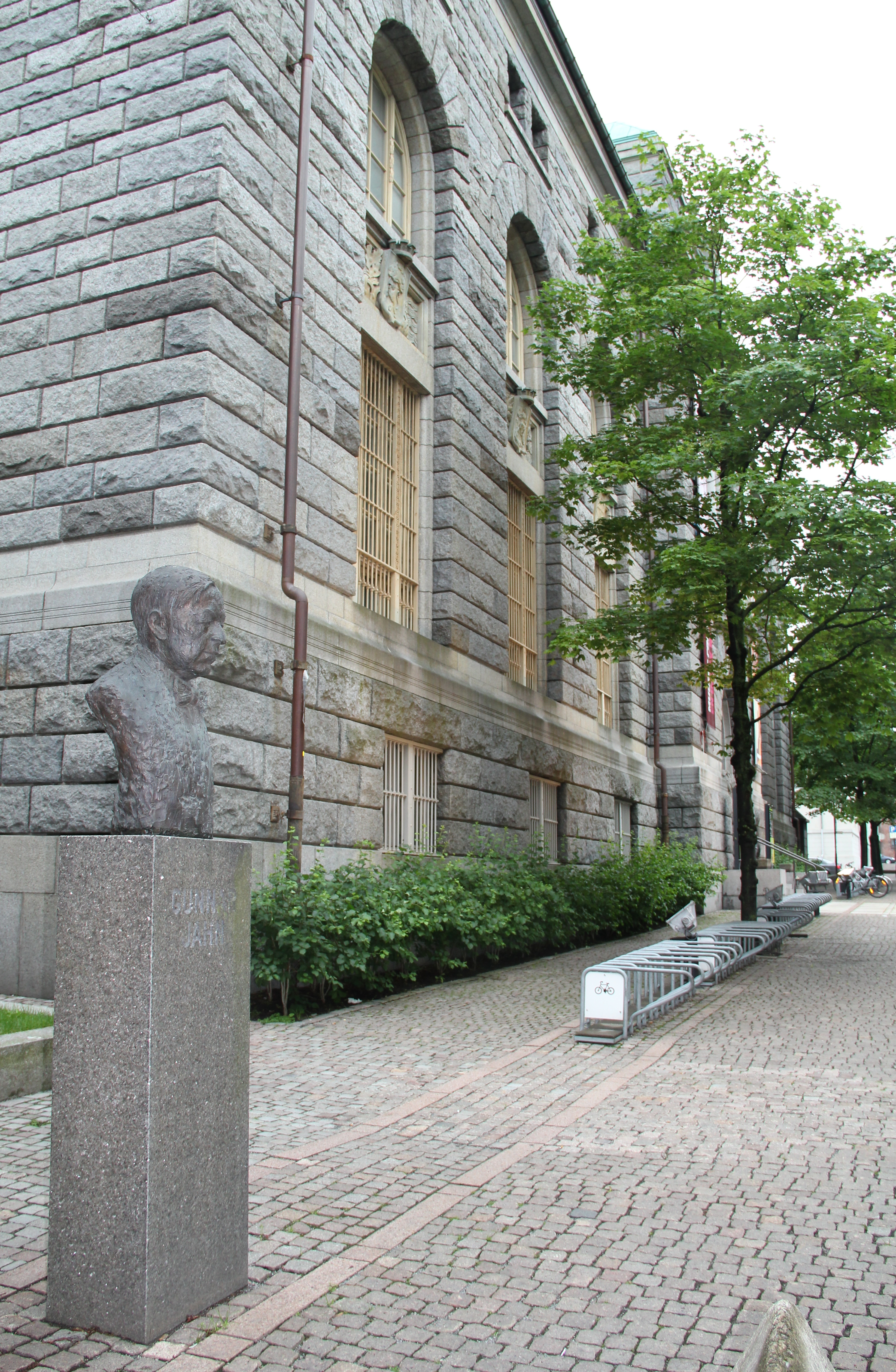 Bust of Gunnar Jahn at Bankplassen in Oslo. Sculptor: Marit Wiklund. Museum of contemporary art, former Norges Bank in the back